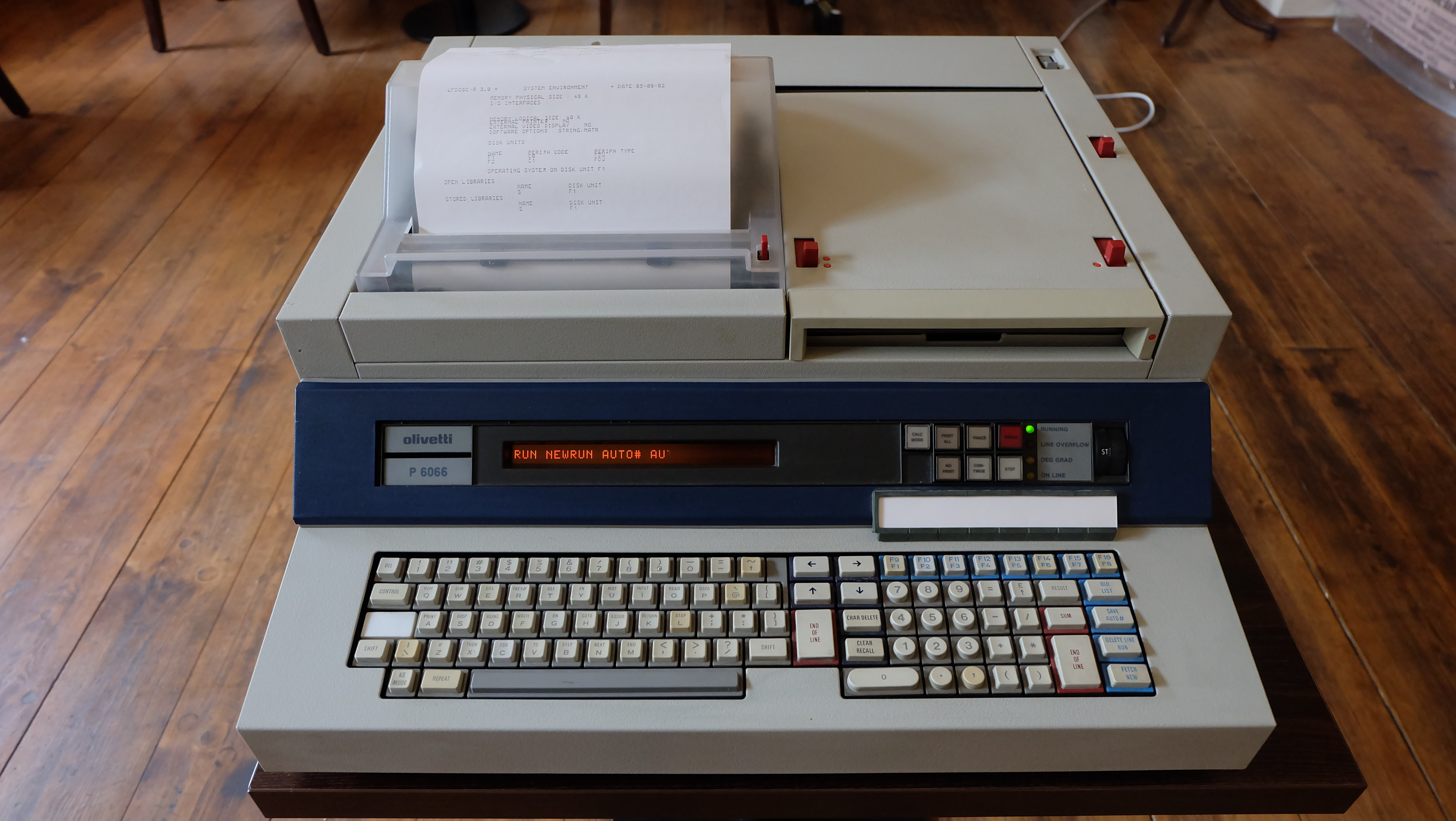 Olivetti P6066. Year 1975. Functional. Located in Zatec, Czech Republic.